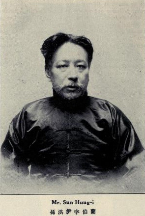 Sun Hongyi, Bolan (1872 - 1936)